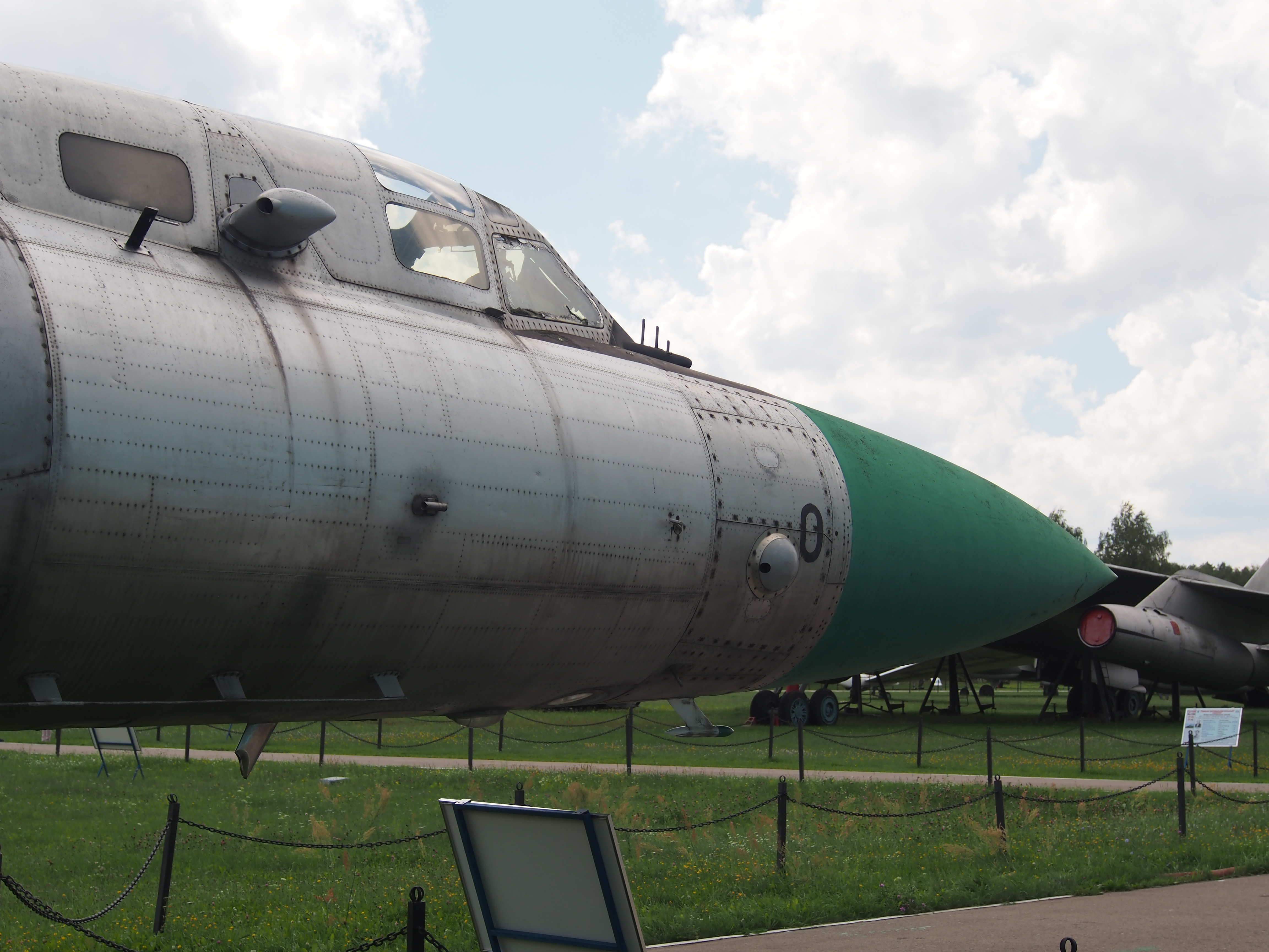 Photographed at the Central Air Force Museum, Monino, Russia.